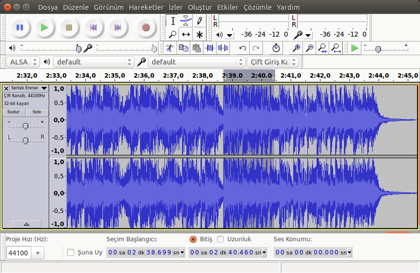 Audacity 2.0.5 screenshot on Ubuntu operation system